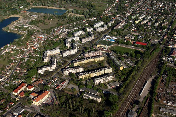 Buzanszky stadium panoramic from North-West